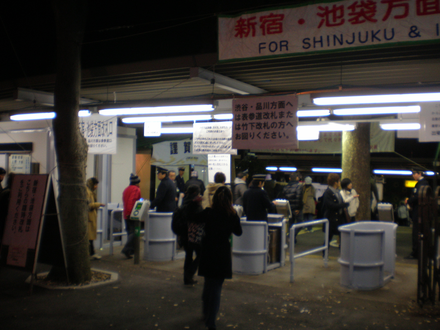 Harajuku Station Meiji Shrine Gate on January 1.